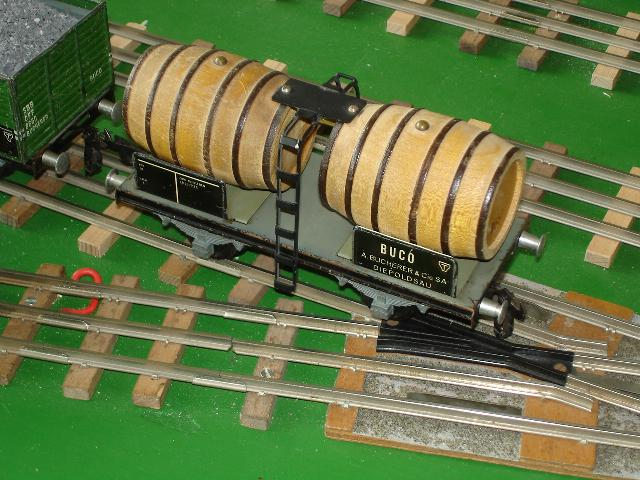 Tinplate model railway tank car in O gauge of the Swiss model railway manufacturer Buco. The picture was taken at the model railway exhibition of ARGE Spur O in Aarau in 2008.